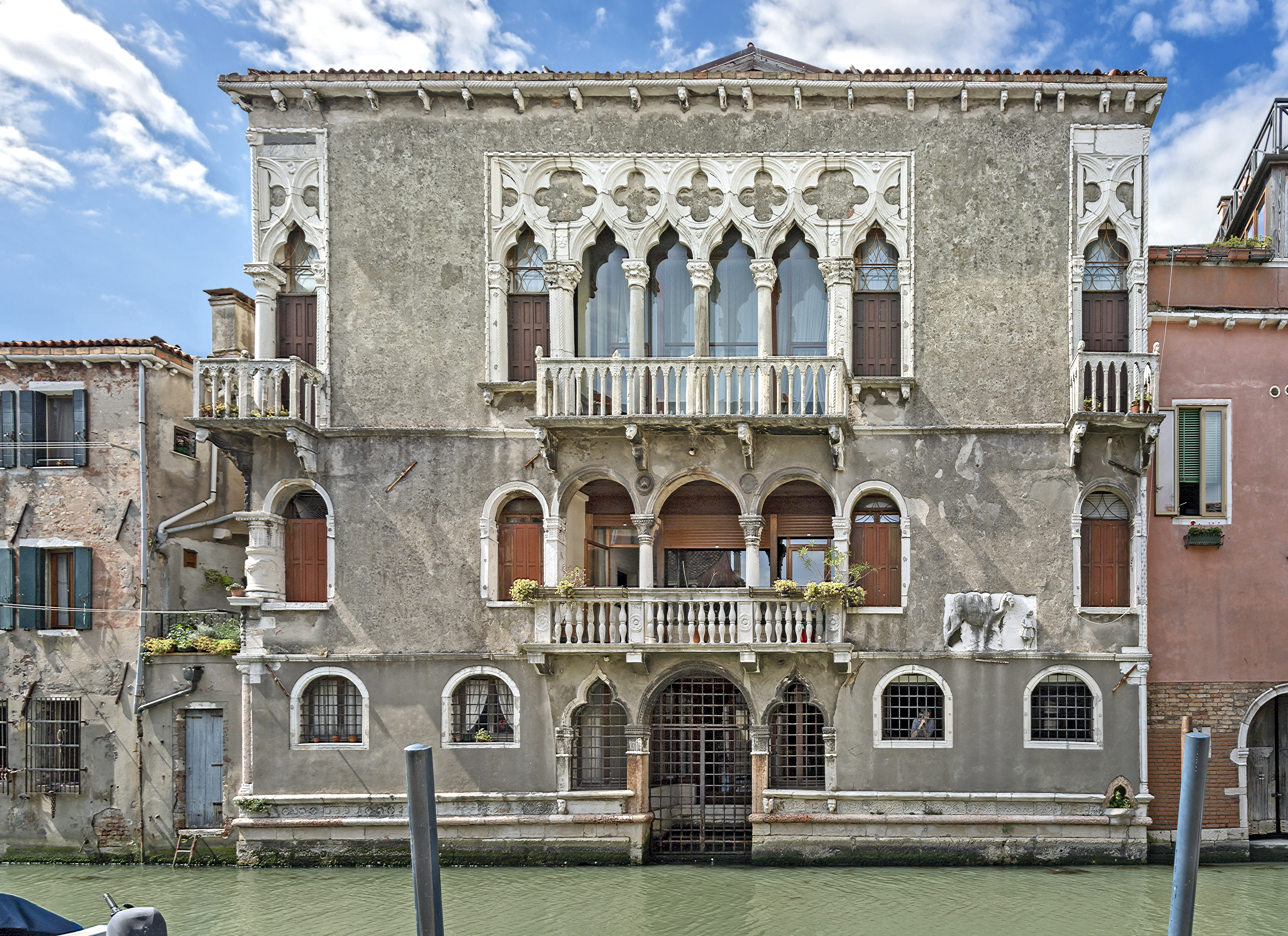 'Palazzo Mastelli del Cammello, Venice, facade on Rio de la Madona de l'Orto